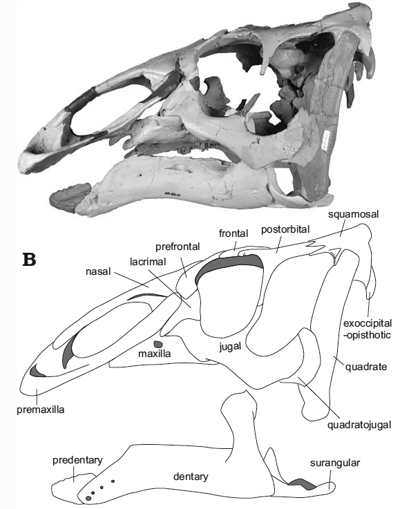 Cranial reconstruction of Ugrunaaluk kuukpikensis gen. et sp. nov. from the early Maastrichtian Prince Creek Formation in left lateral view. Photograph (A) and bone interpretation (B).